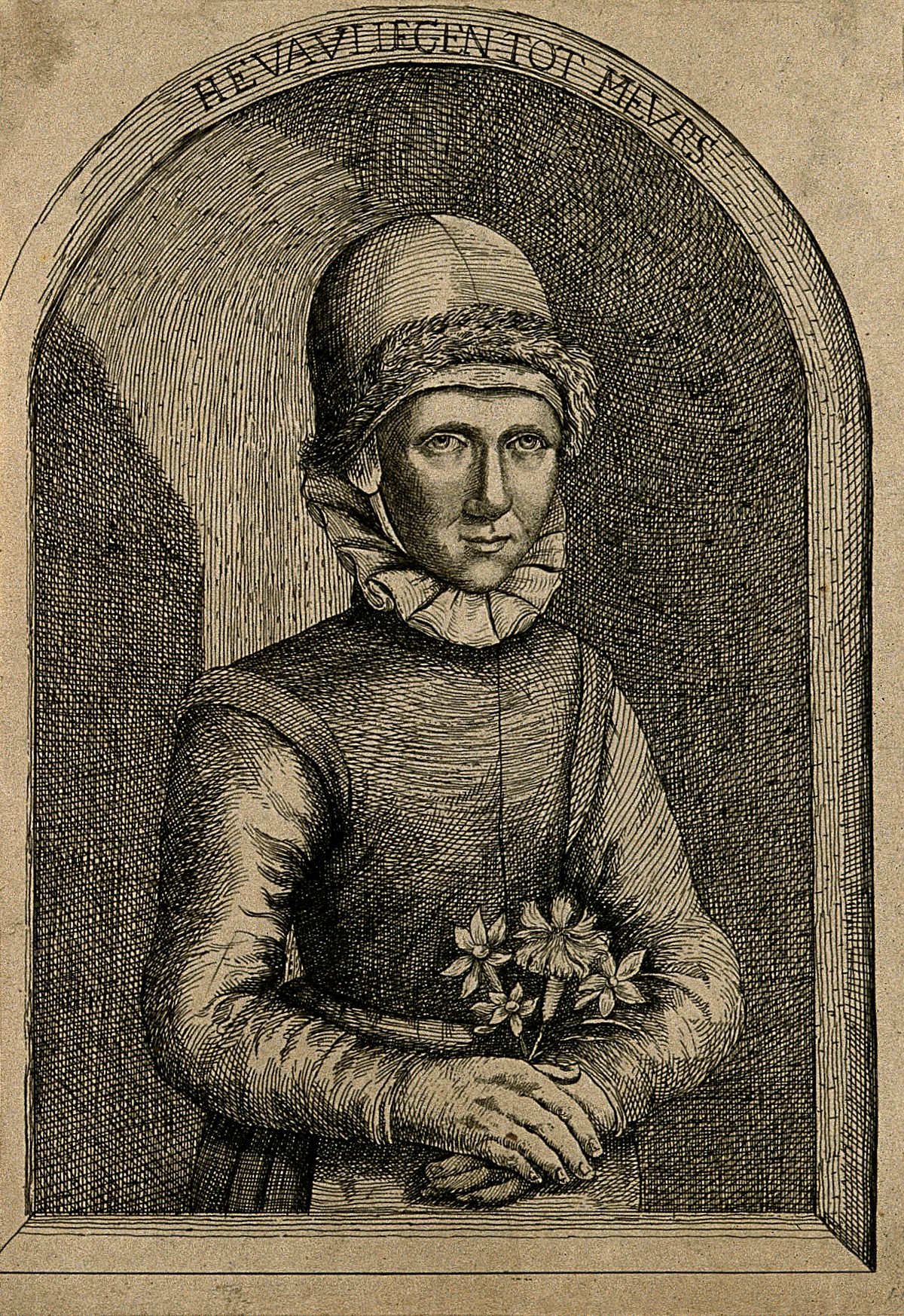 Eva Vliegen, a woman who lived off the smell of flowers. Etching. Iconographic Collections Keywords: Eva Vliegen